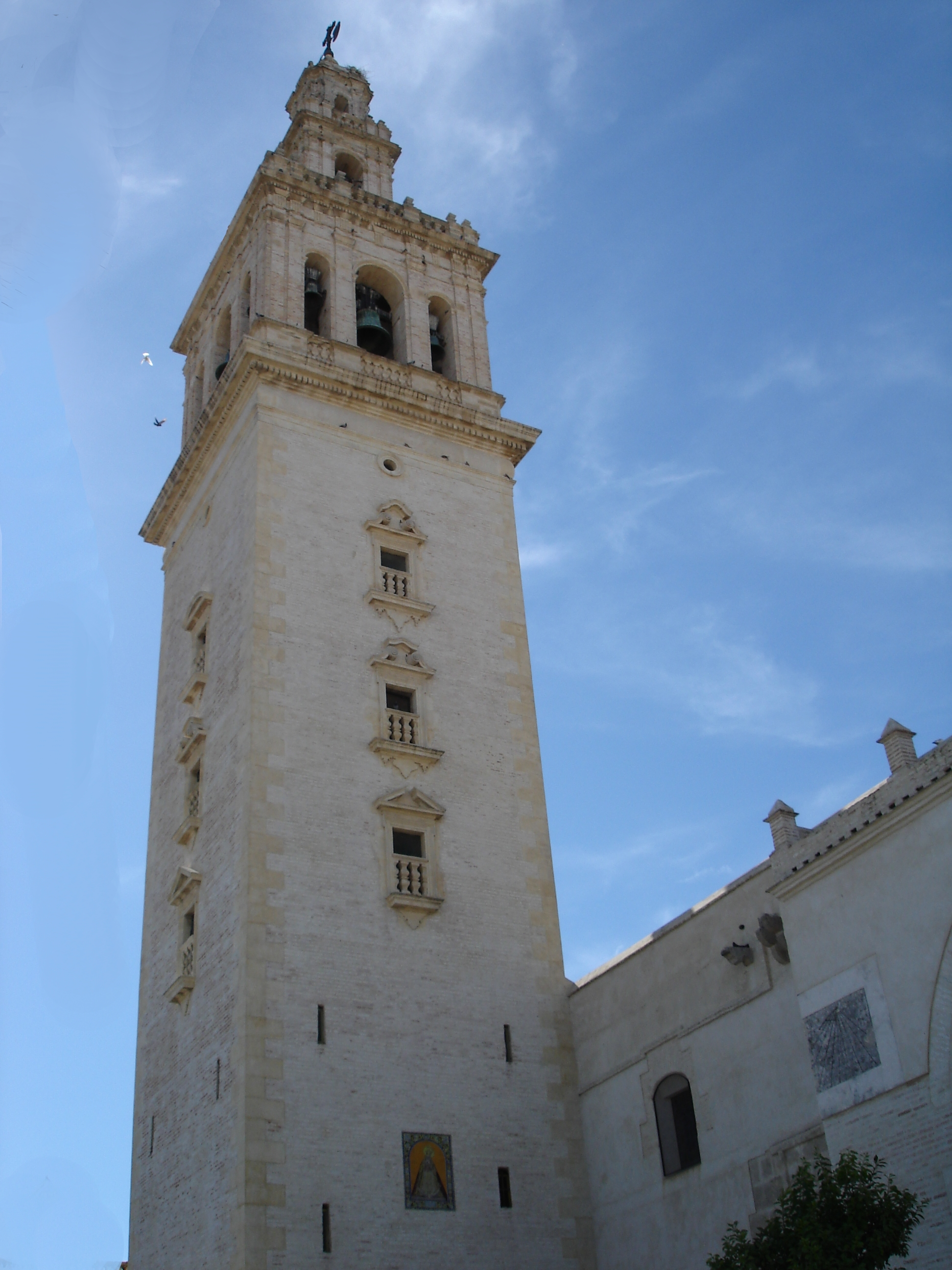 Giraldilla campanile tower of the Church of "Santa María de la Oliva", Lebrija (Seville). Photo by Asterion talk to me